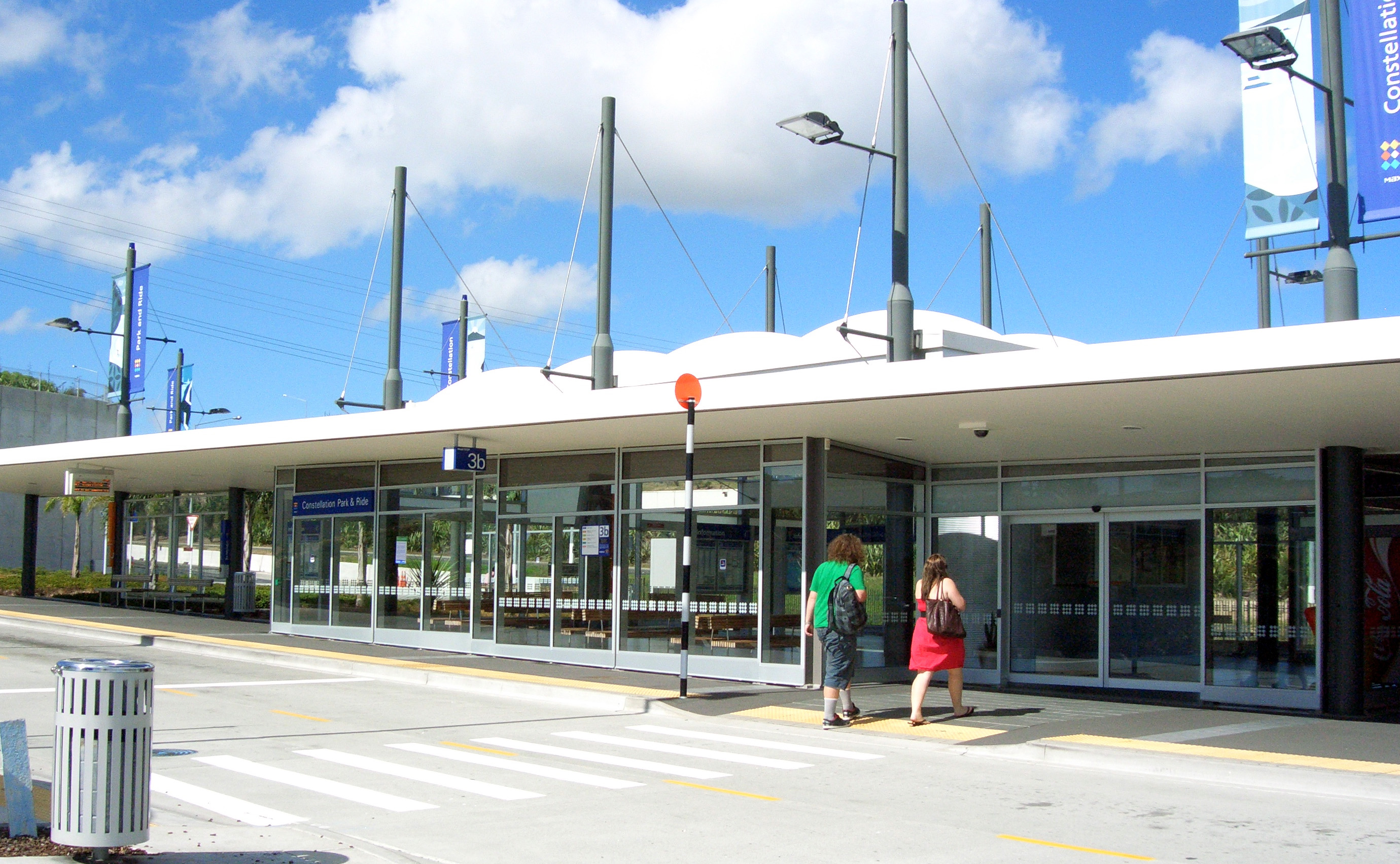 Auckland's Northern Busway adjacent to the Northern Motorway, State Highway 1. Constellation Park & Ride station. This station has car parking and several feeder bus routes. This view shows the feeder bus platforms while the express platforms are almost visible through the glass building.